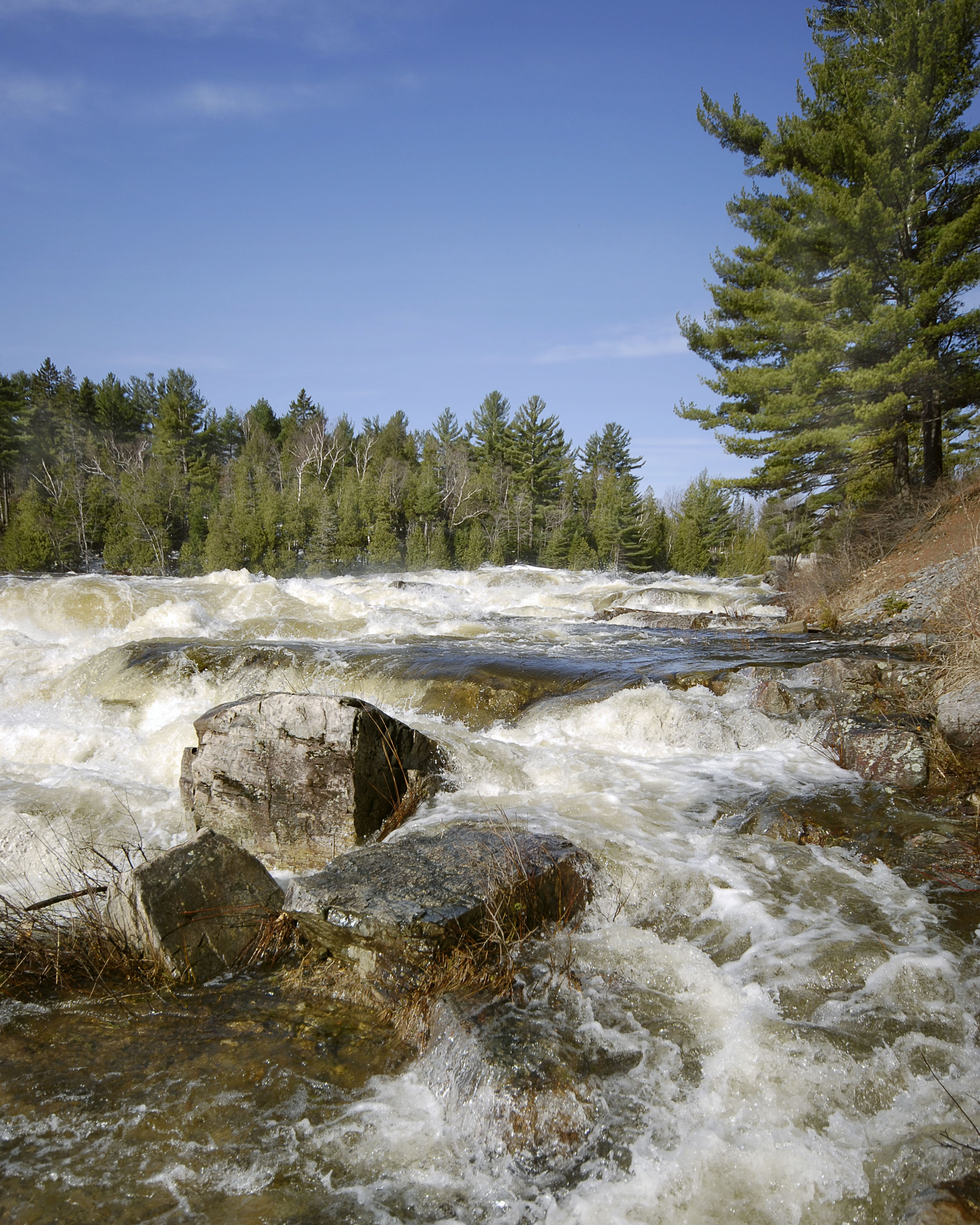 Spring Freshet on Ouareau River seen from Rawdon Falls, Quebec, Canada